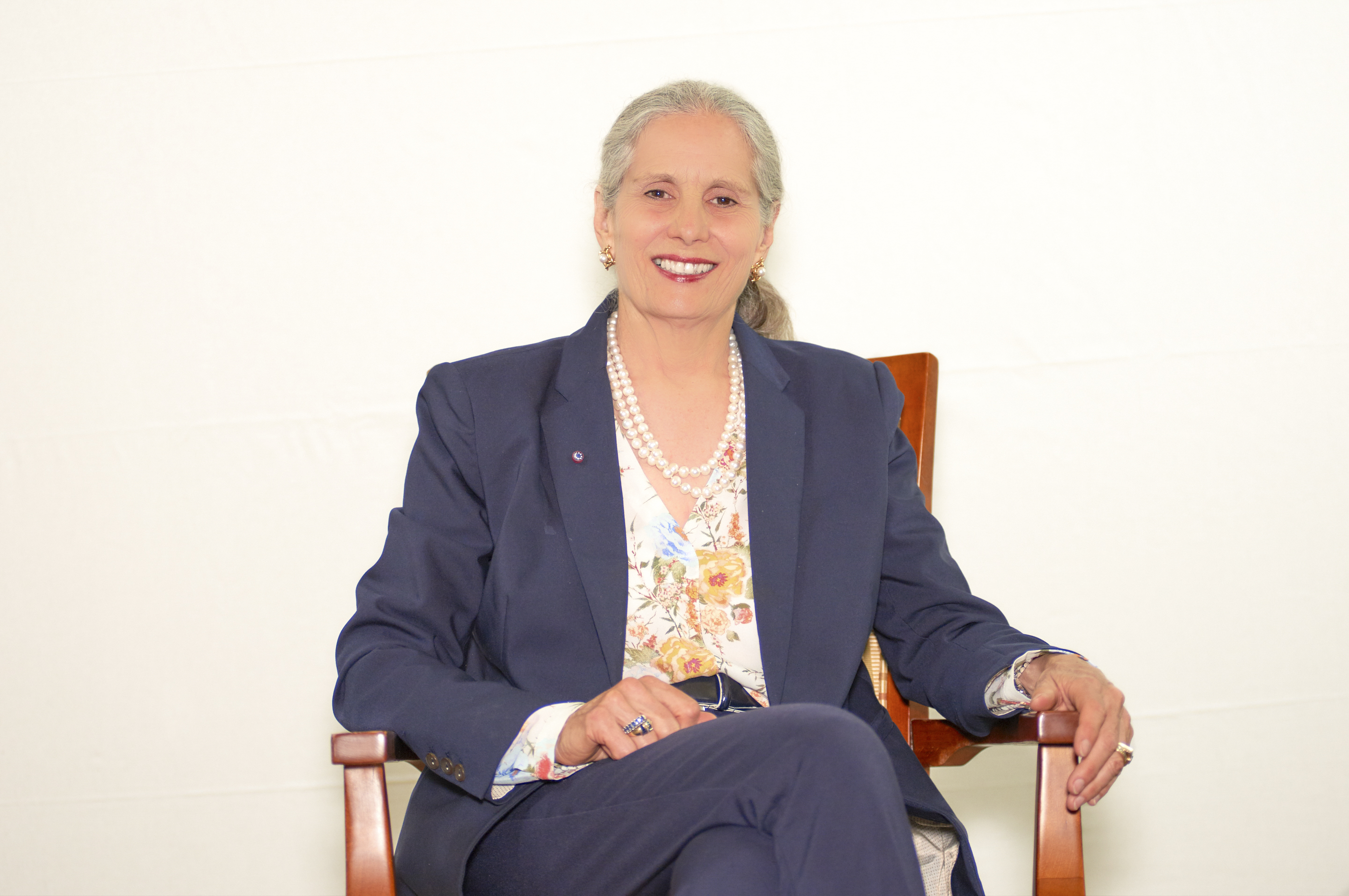 seated pearls blue suit